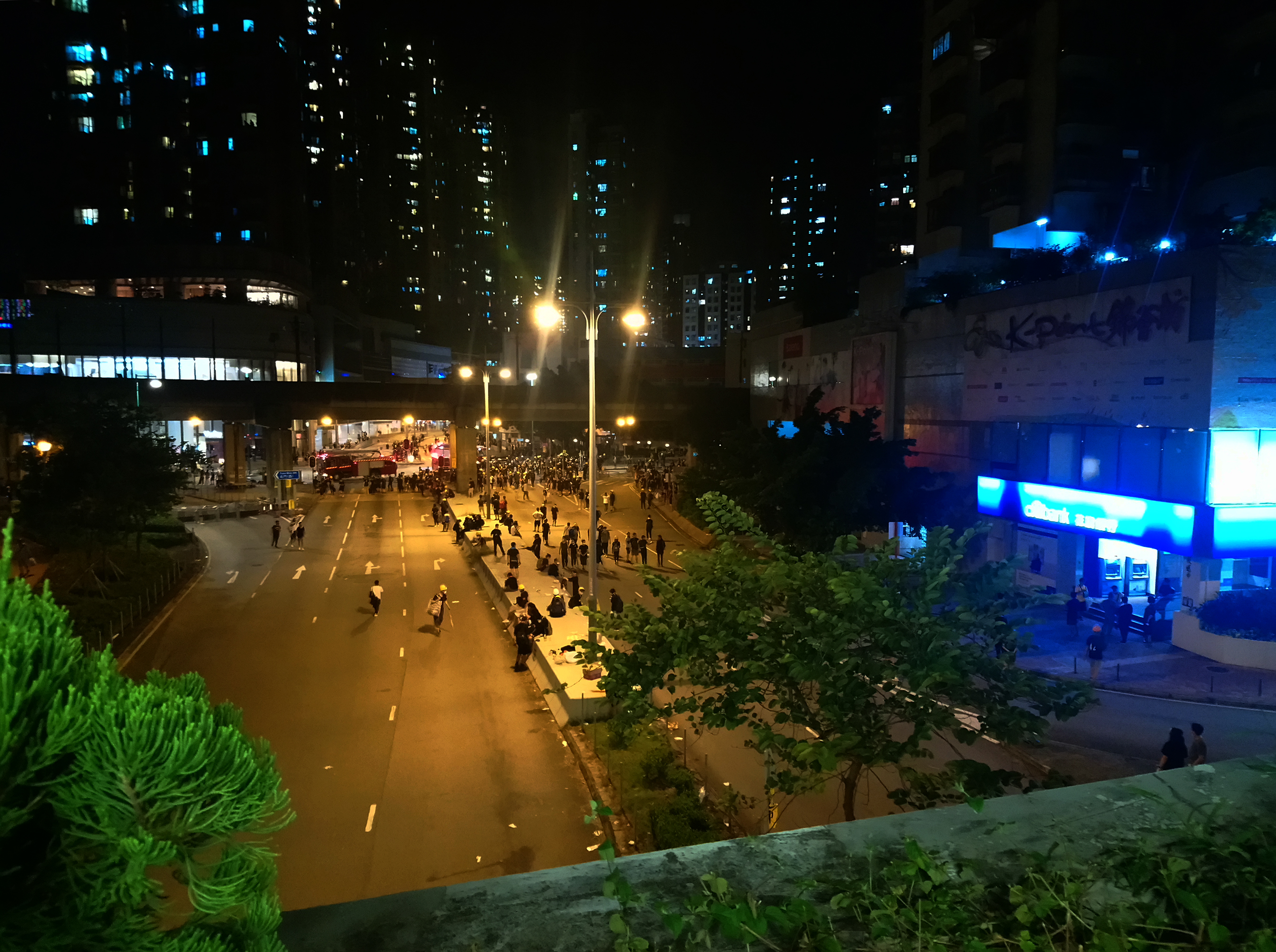 Tuen Mun Protest